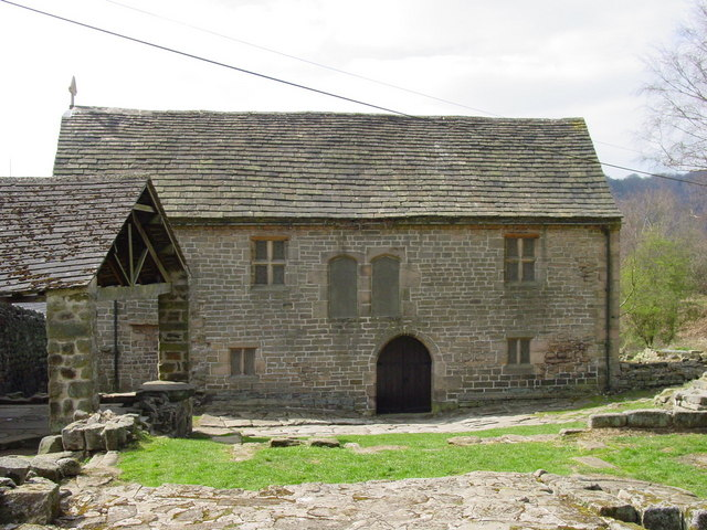 Padley Chapel near Grindleford